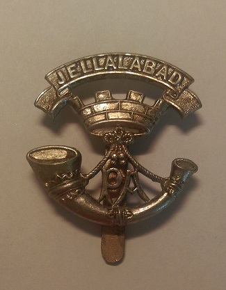 Photo of Somerset Light Infantry Cap Badge from personal collection